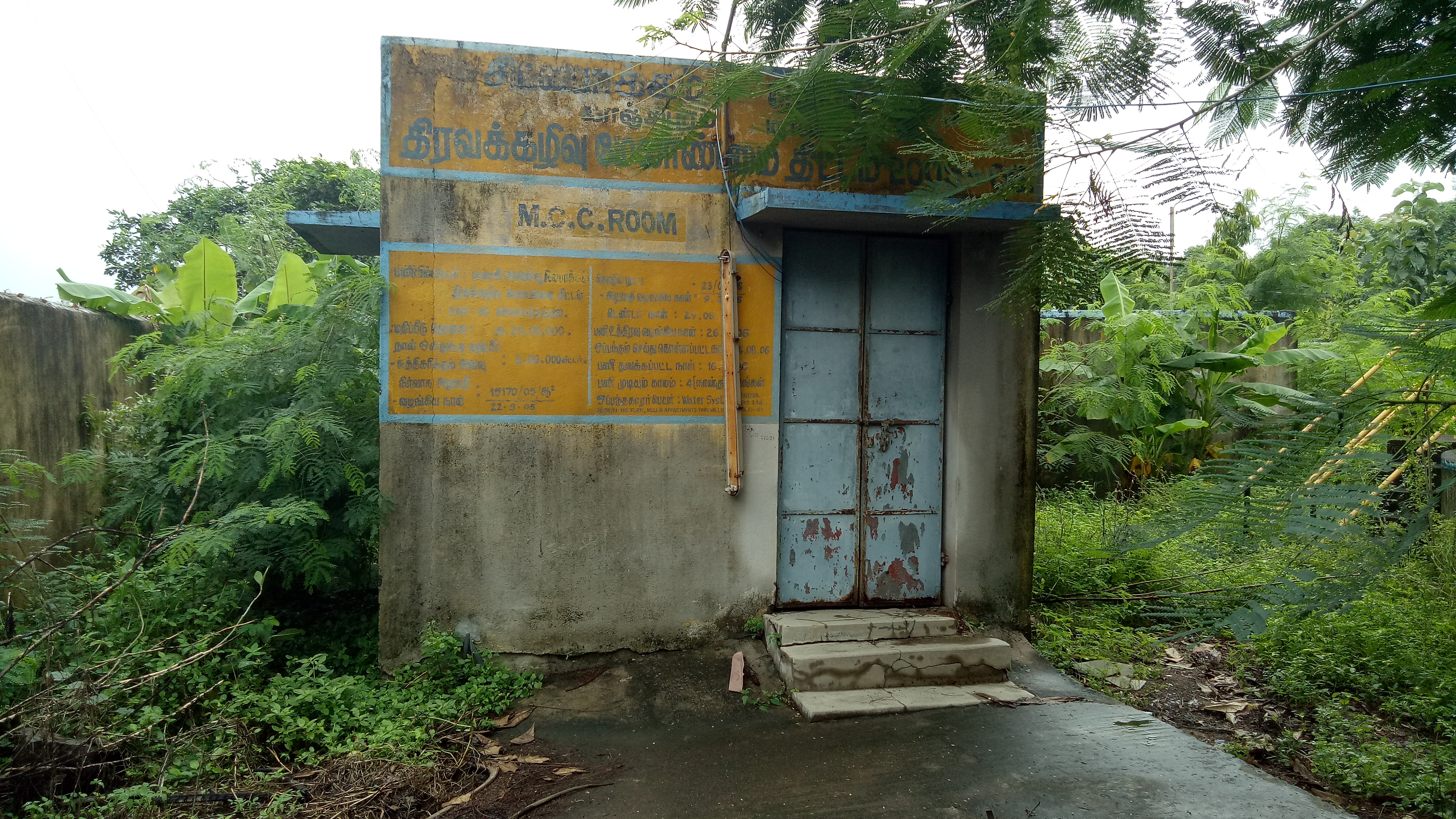 Sewage and waste water treatment plant, Chitlapakkam. Located in Balaji avenue near "Sembakkam" lake.